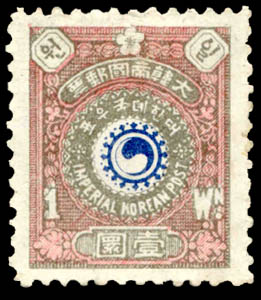 1 won (원/圓) postage stamp from the Empire of Korea